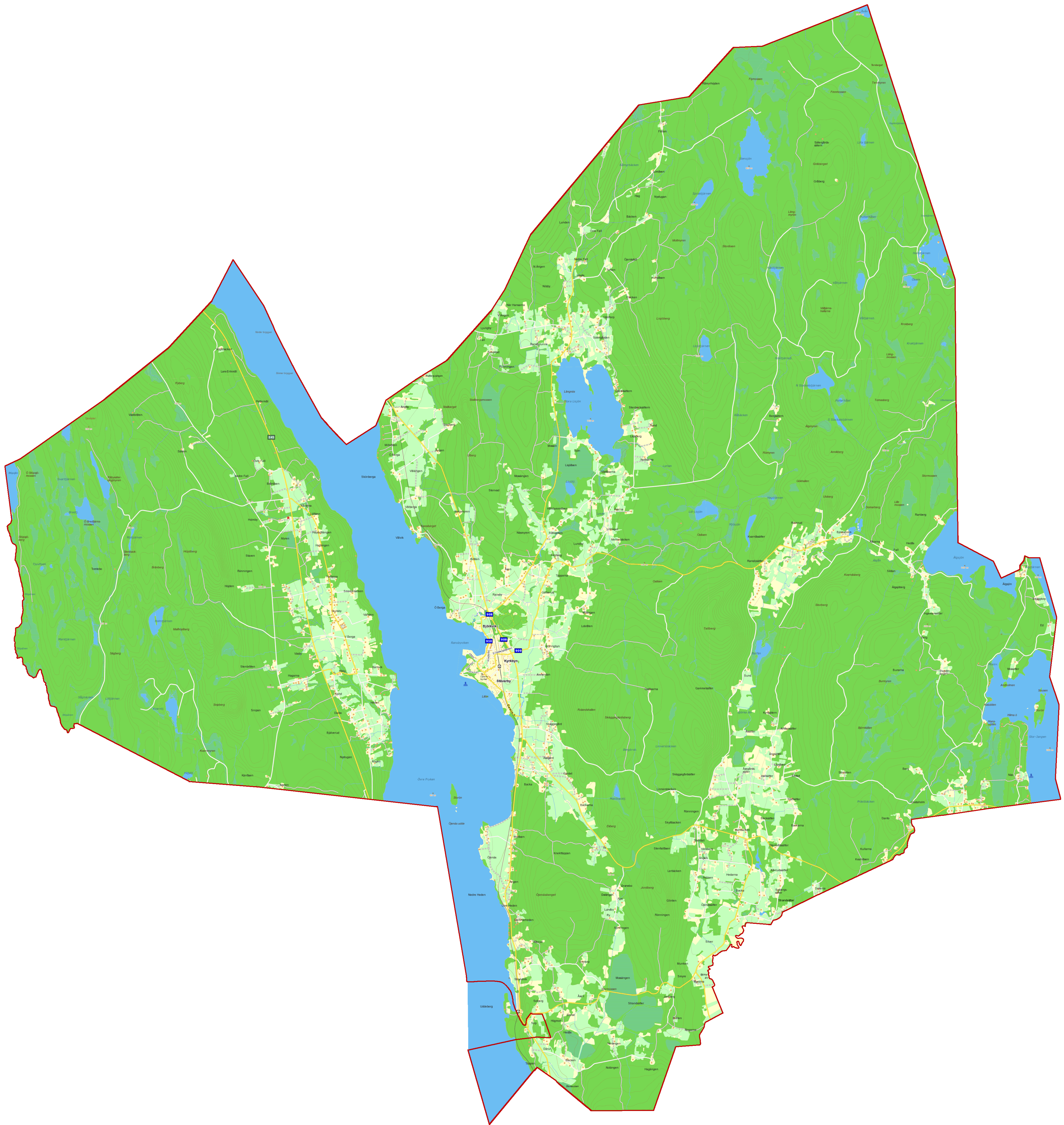 Old municipality of Lysvik